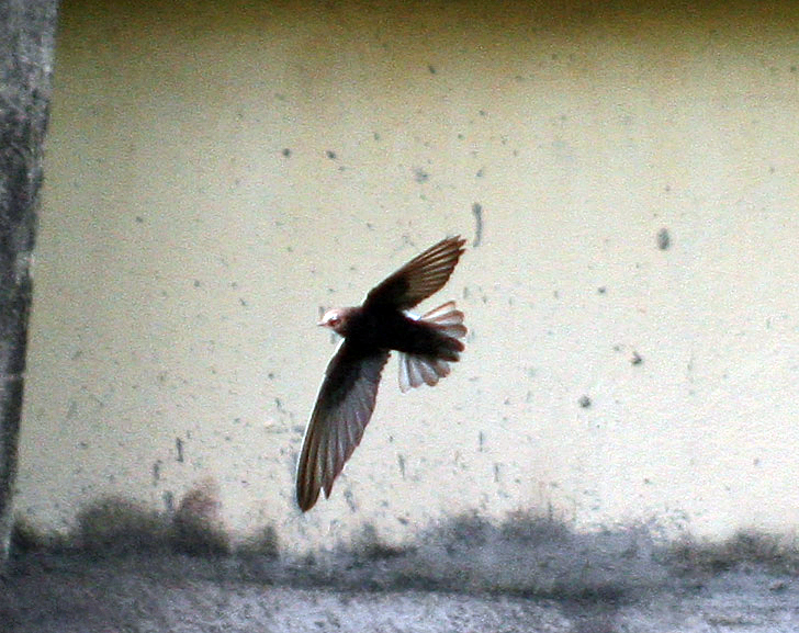 House swift (Apus affinis) in Kolkata, West Bengal, India.